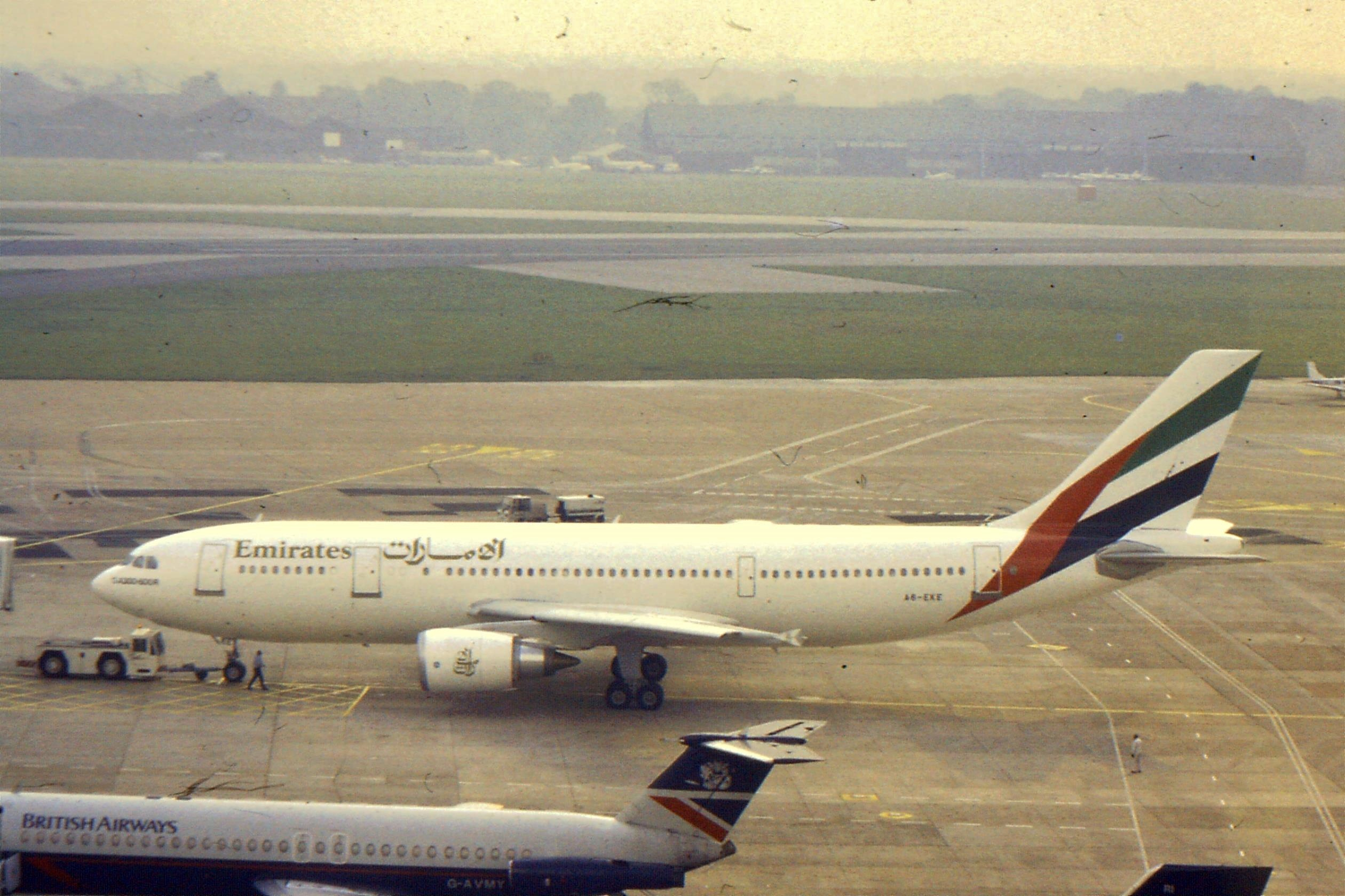 Pushing back from teh domestic stand is this early EK example. I think it must have been operating a fam trip for travel agents, hence the domestic stand parking.